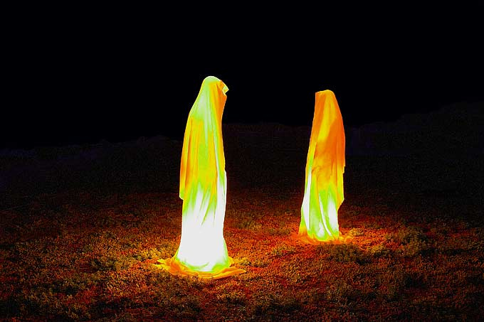 "timeguards at night" by Manfred Kielnhofer, Sculpture garden Artpark Linz 2009